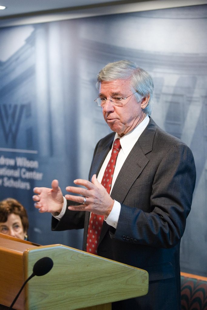 Former Maryland governor Parris Glendening speaking about how smart growth principles can be used by existing communities to protect against natural disasters.